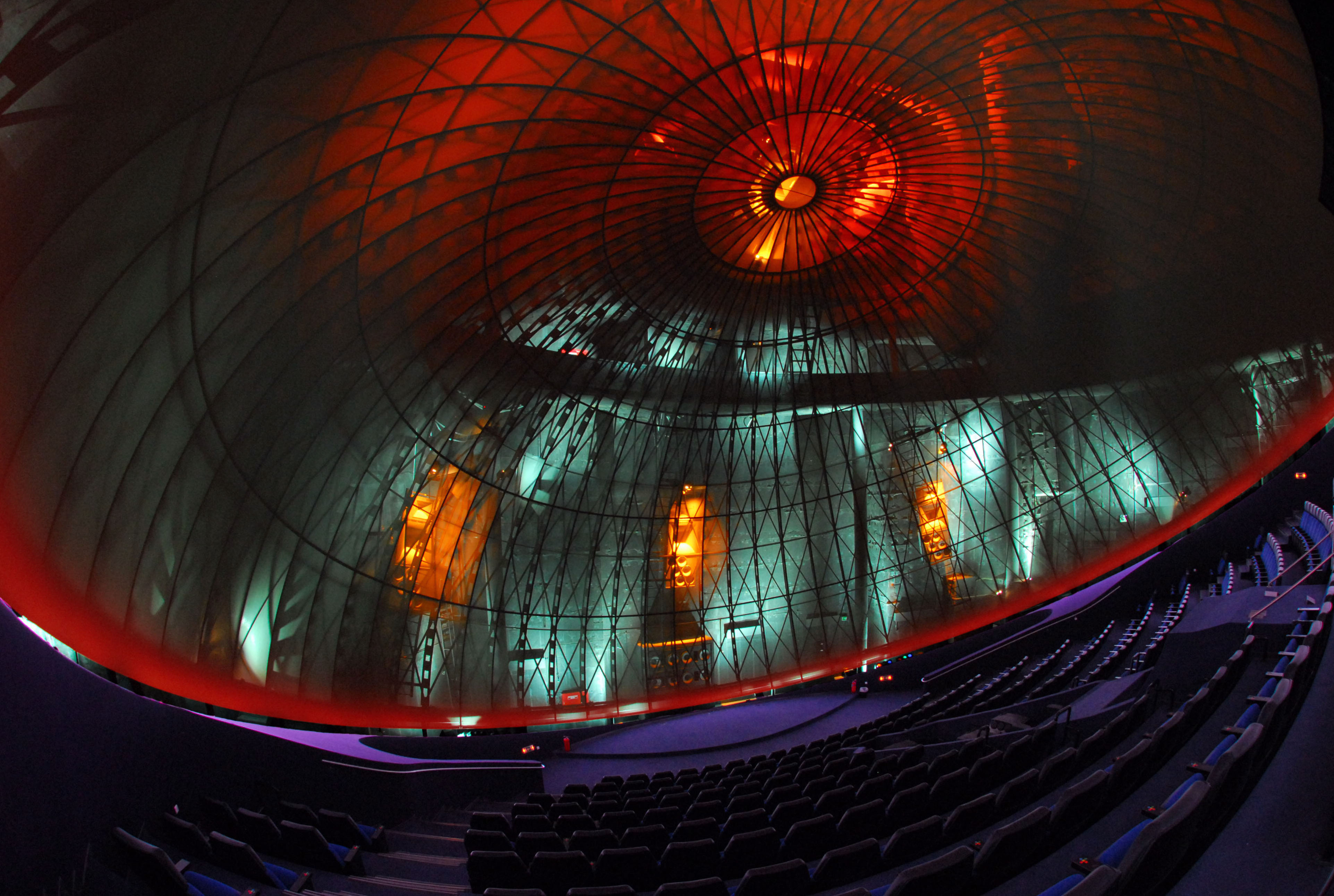 Interior of Eugenides Foundation planetarium